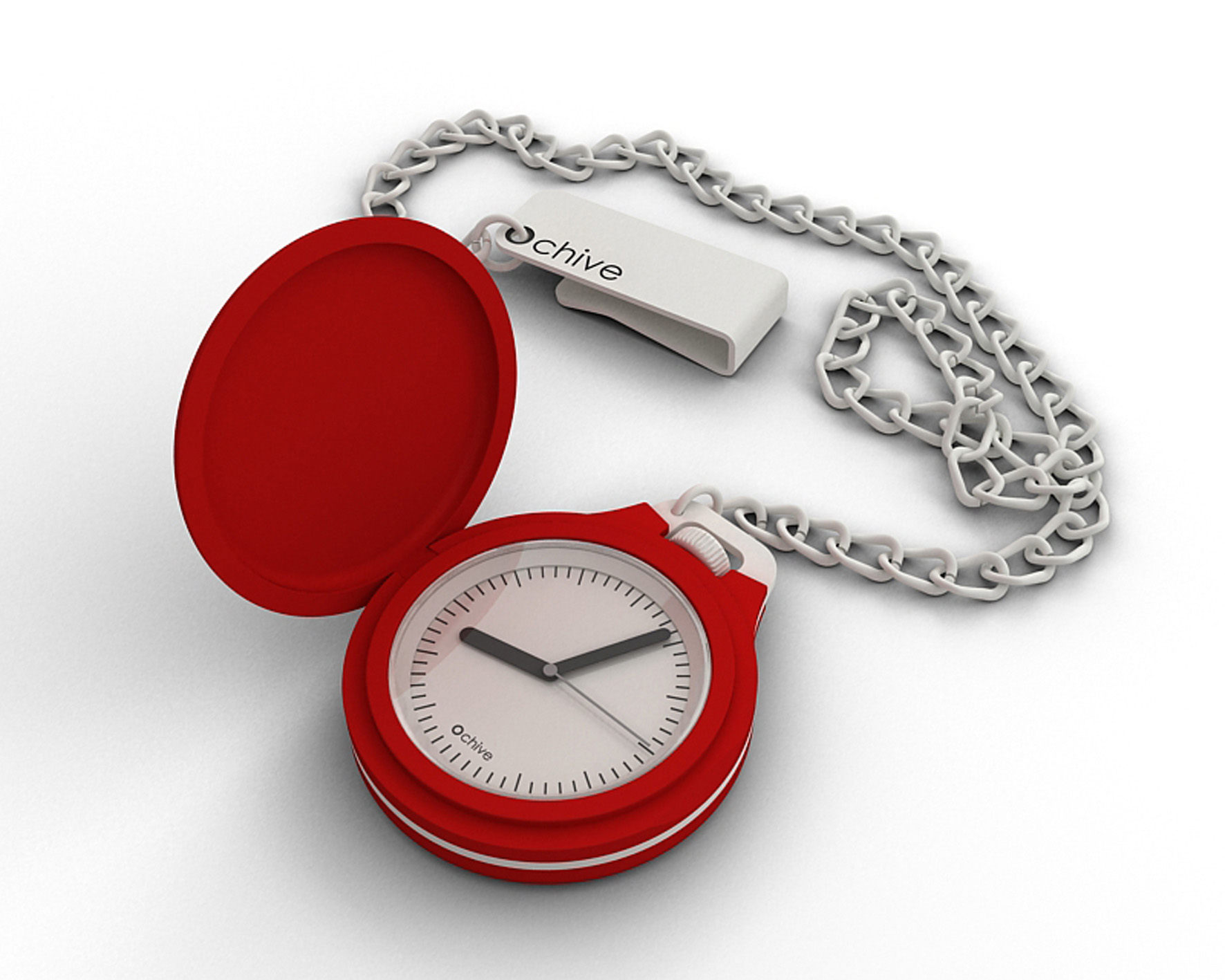 Fullspot O chive in red